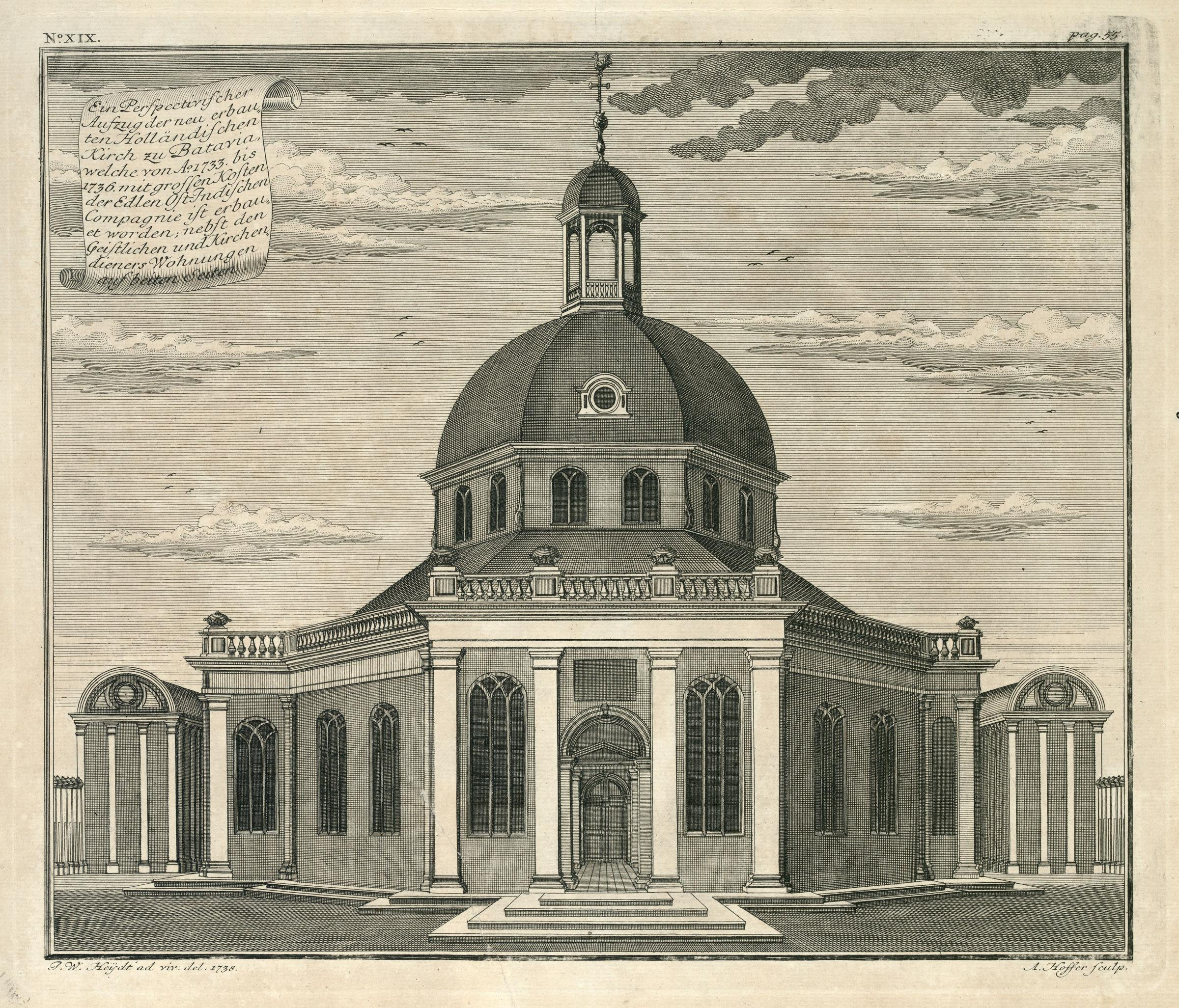 View of the new Dutch church on Batavia. Ein Perspectivischer Aufzug der neu erbauten Holländischen Kirch zu Batavia, welche von Ao. 1733. bis 1736. mit grossen Kosten der Ed;en Ost-Indischen Compagnie ist erbauet worden; nebst den Geistlichen und Kirchen dieners Wohnungen auf beiten Seiten.. Top left: No: XIX.. Top right: pag. 55..